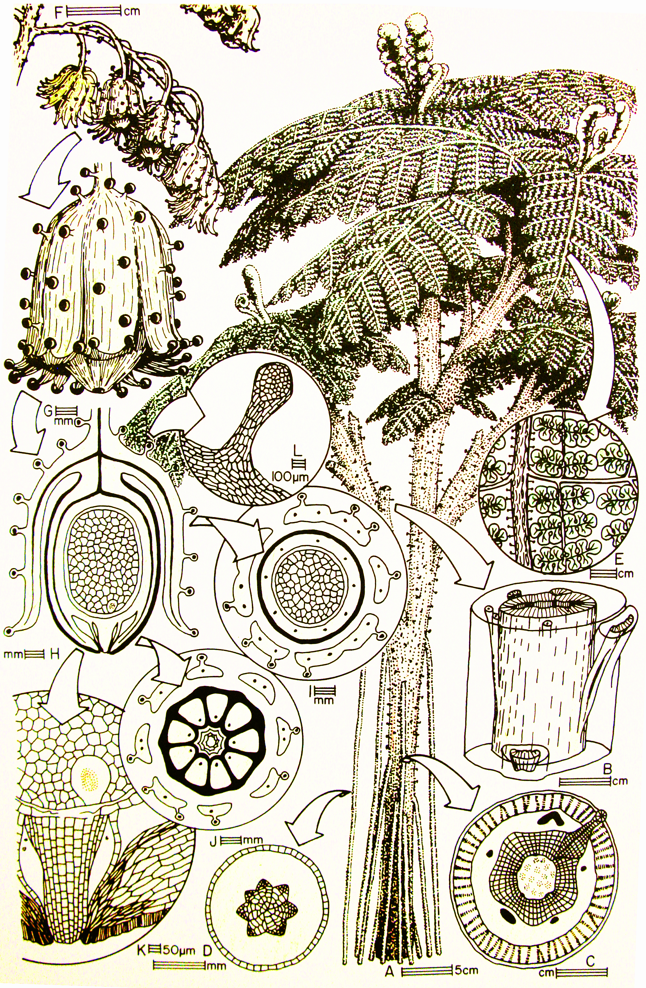 Reconstruction of the fossil plants with Lagenostoma lomaxii ovules, Lyginopteris oldhamiana stems, and Sphenopteris hoeningshauseni leaves from the Late Carboniferous Millstone Grti of Stalybridge, England (after Retallack and Dilcher